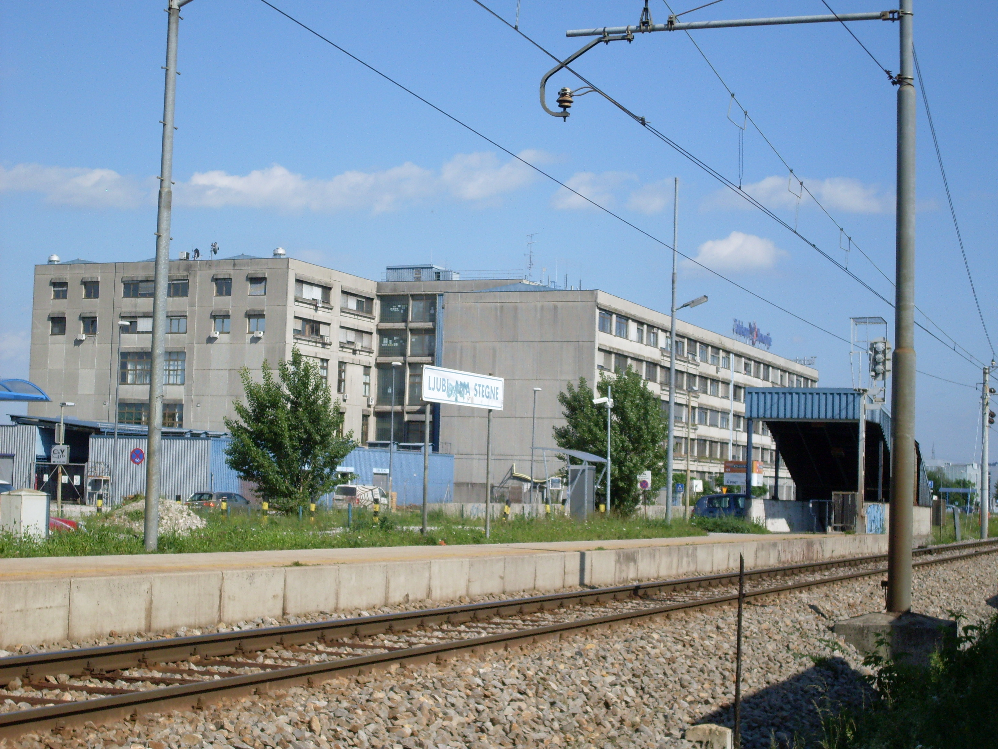 Rail halt Ljubljana Stegne, located in northern part of Ljubljana, Slovenia